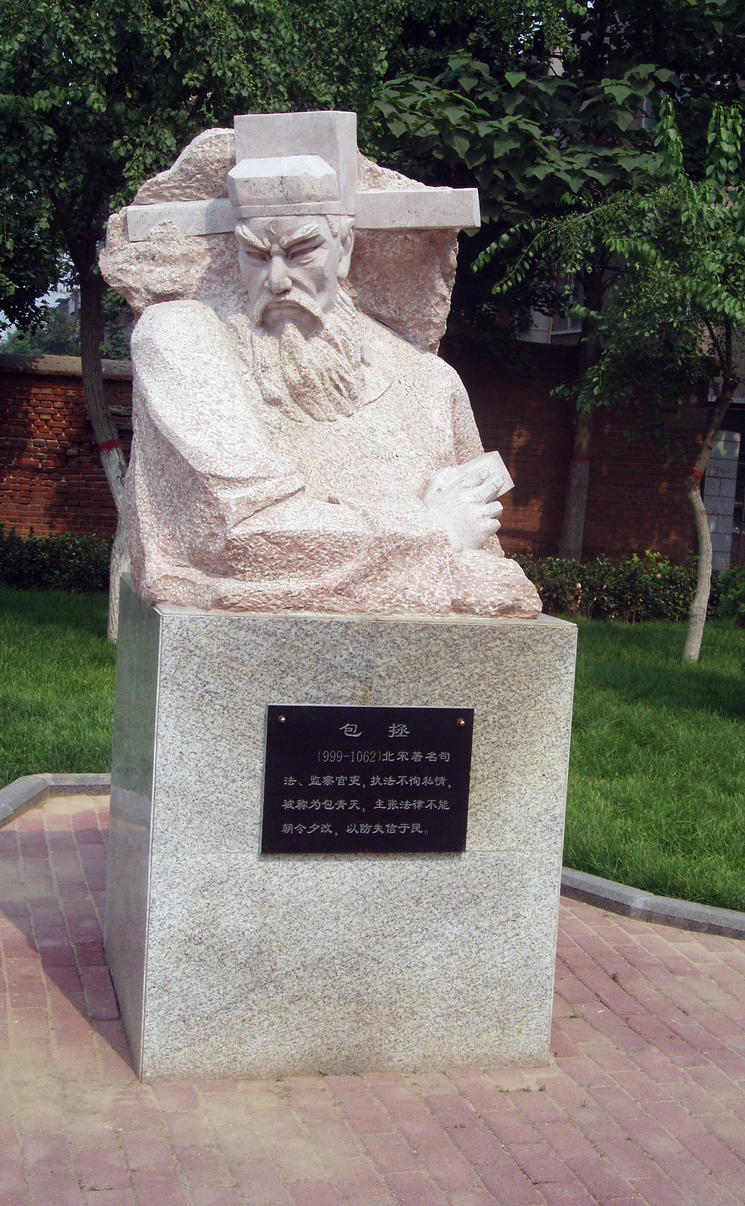 Statue of Bao Zheng, an Ancient Chinese celebrity